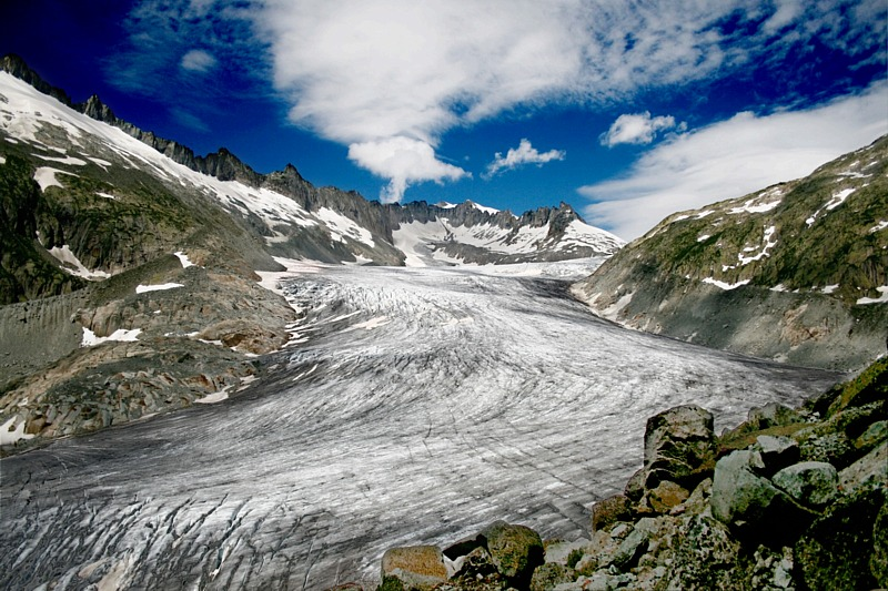 Rhône Glacier seen from southeast